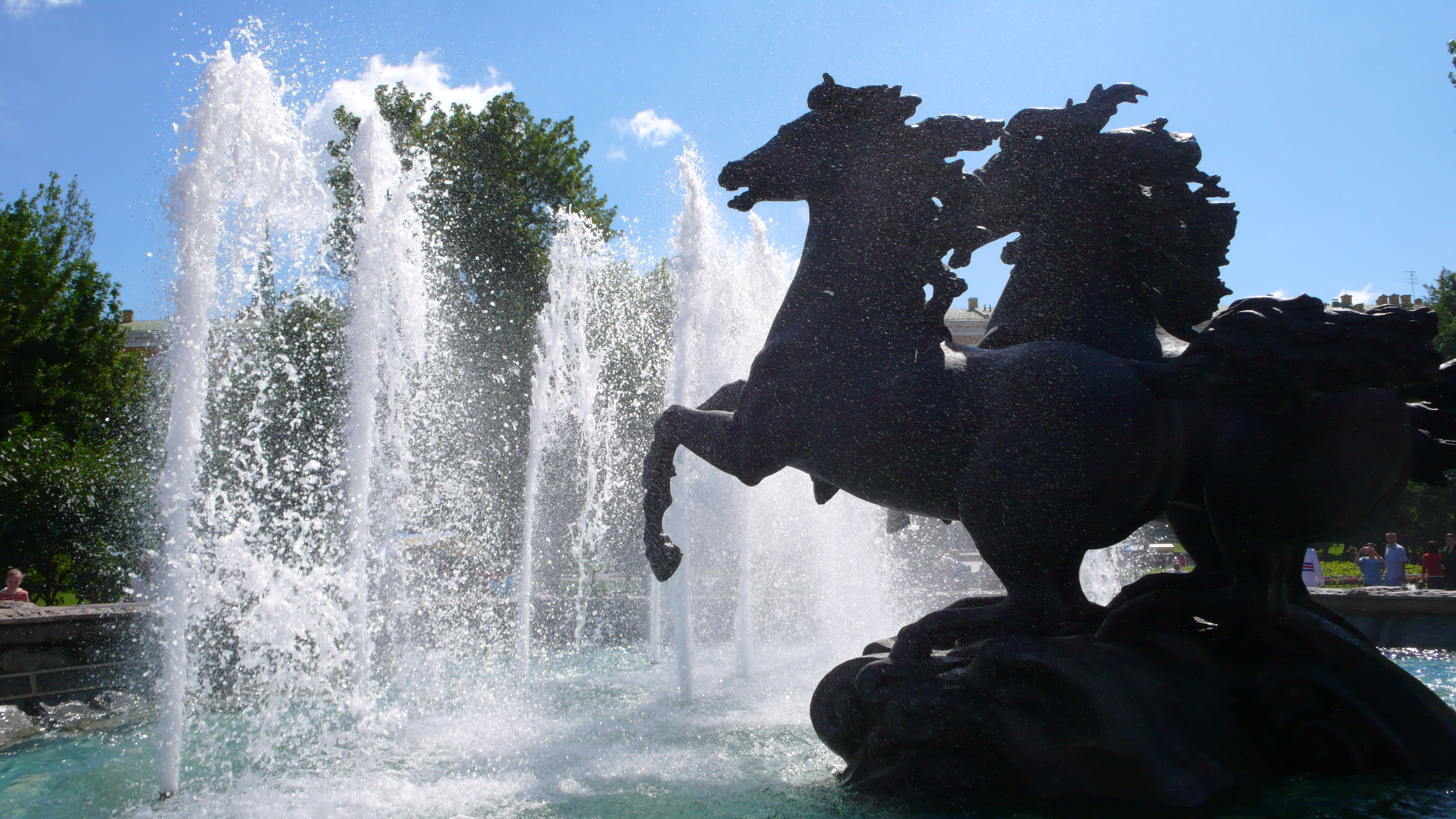 The Kremlin stables